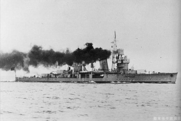 Chinese cuiser Ping-Hai on trial run at Setouchi-Sea, Japan. She was caught in 1938 and renamed to Yasoshima in 1944 by Imperial Japanese Navy.